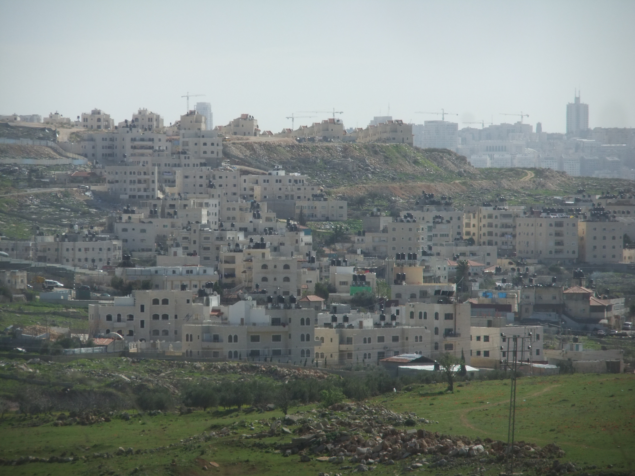 Beit Hanina as viewed from Atarot, the north